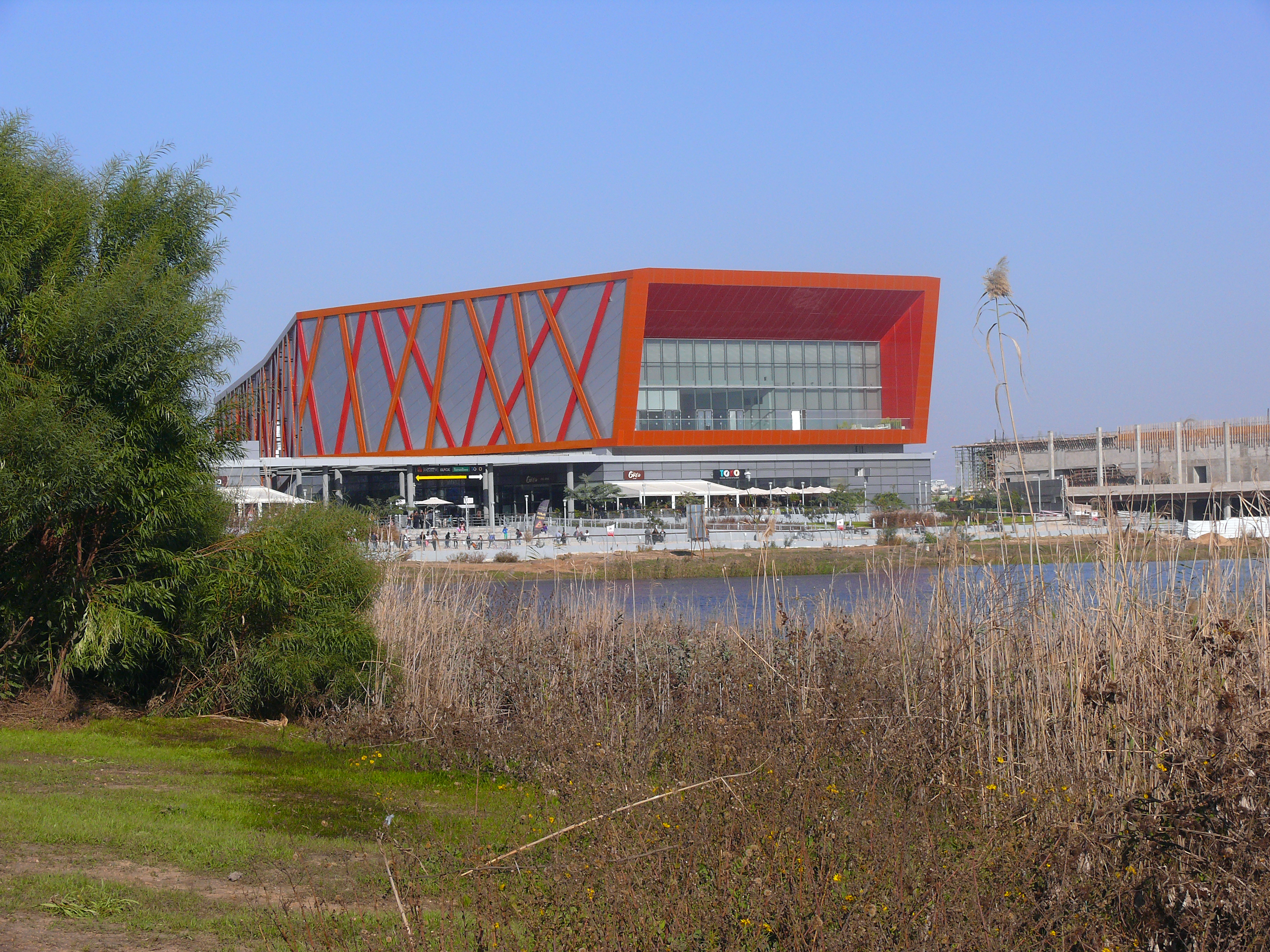 Yes Planet cinema, Rishon LeZion Lake, Rishon LeZion, Israel